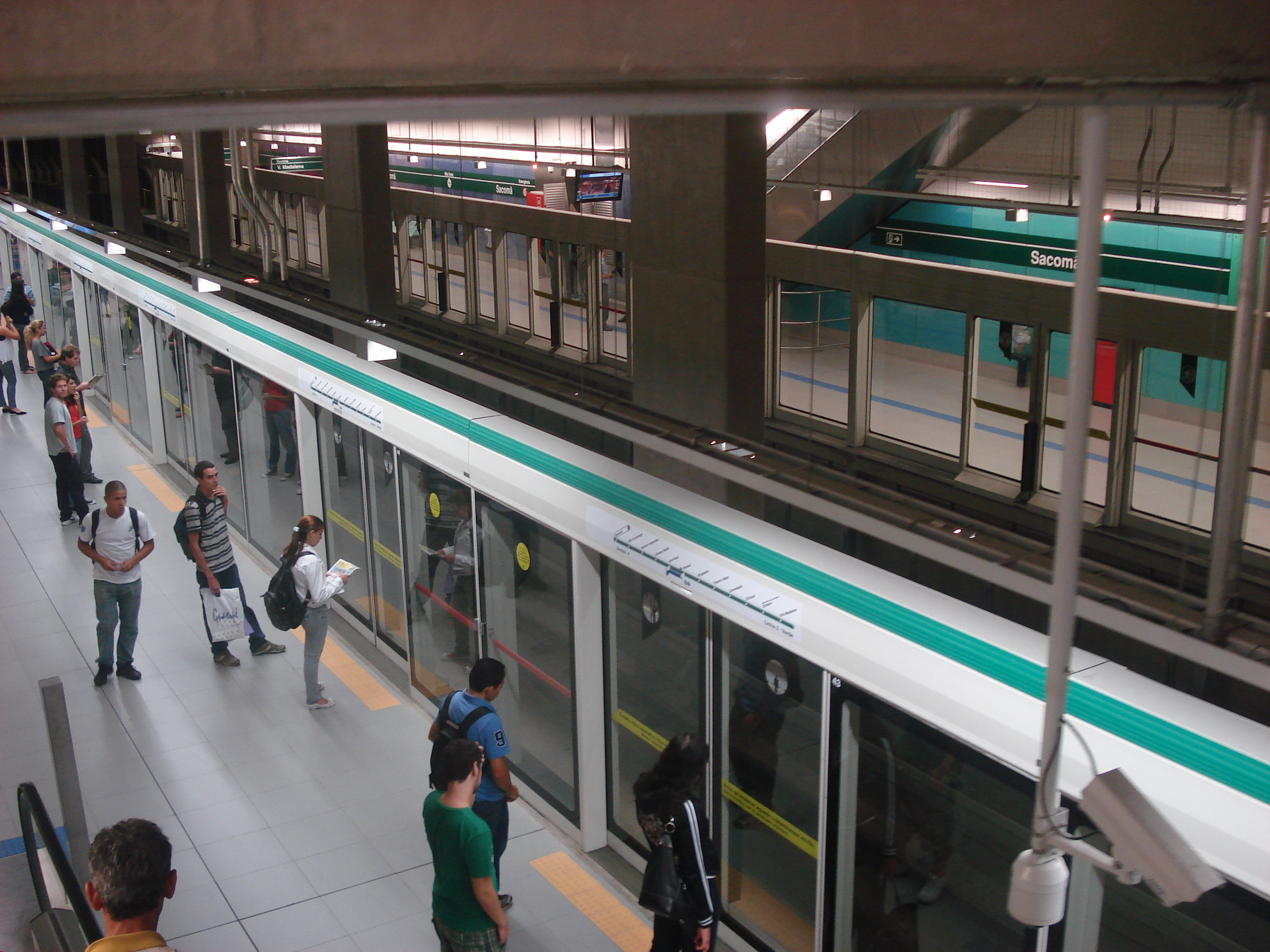 Sacomã Station - Line 2 - Green of Sao Paulo Metro.